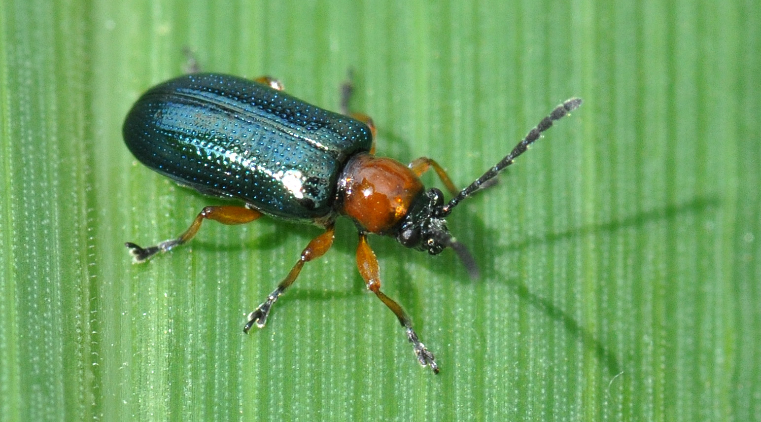 A Cereal leaf beetle on a maize leaf in Switzerland